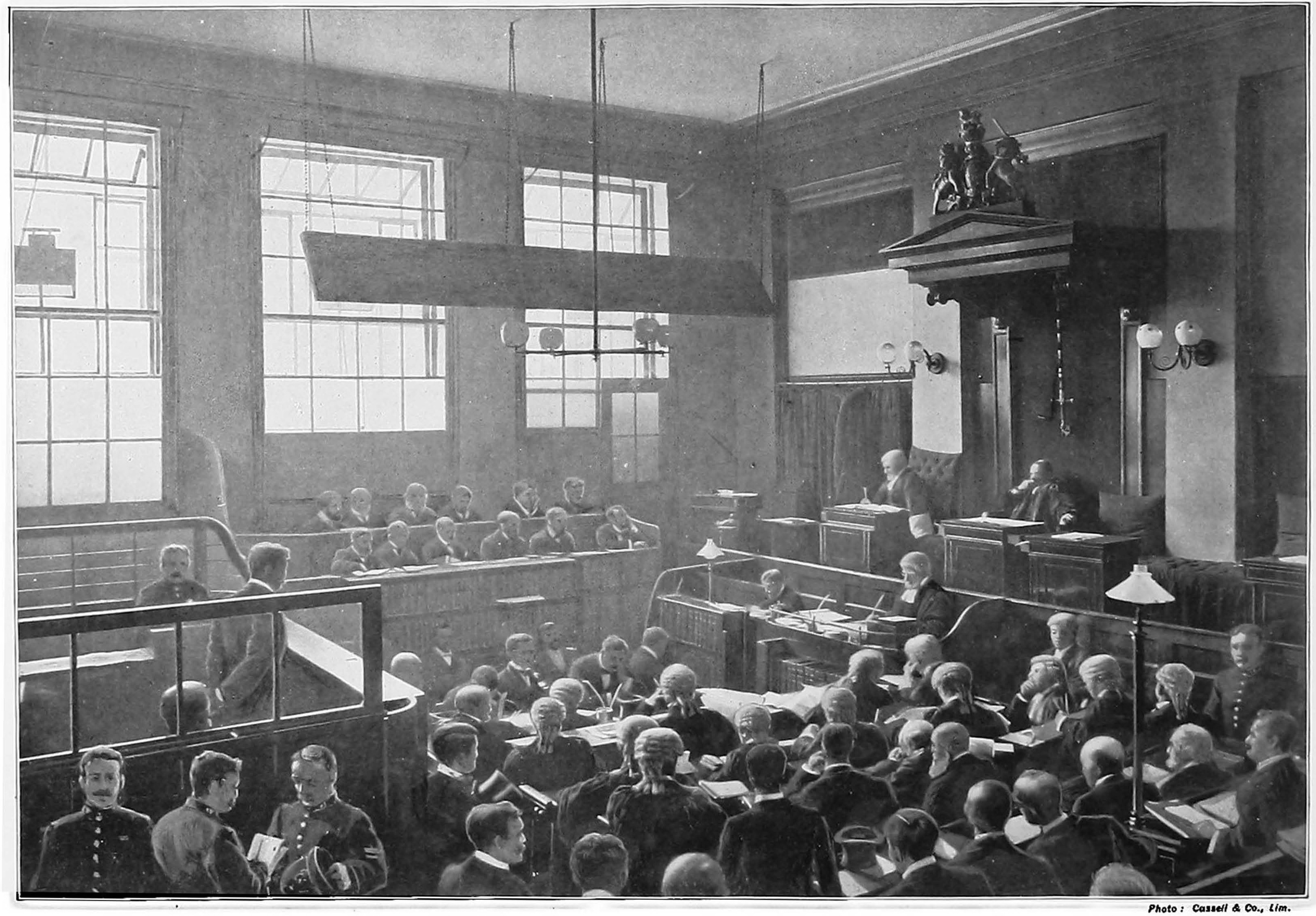 The old Bailey - Bailey sessions court house